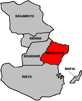 Created by Andrew Coe